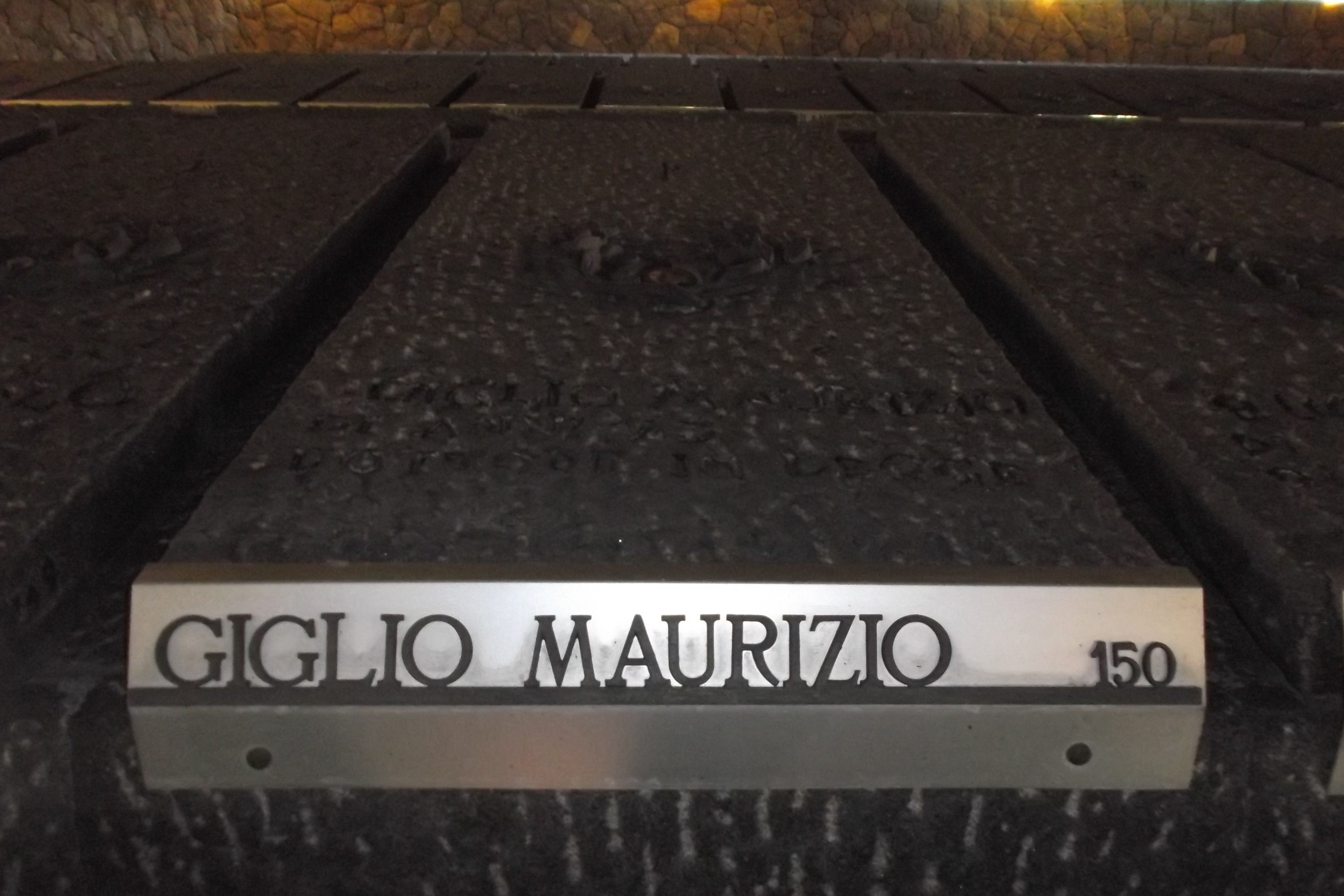 Grave of Maurizio Giglio (no 150), one of the 335 victims of the Ardeatine massacre in Rome (24 March 1944)